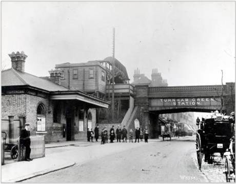 Turnham Green tube station after electrification at the beginning of the XX century